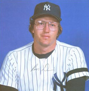 Professional baseball player Ron Davis during the 1981 season as a member of the New York Yankees.